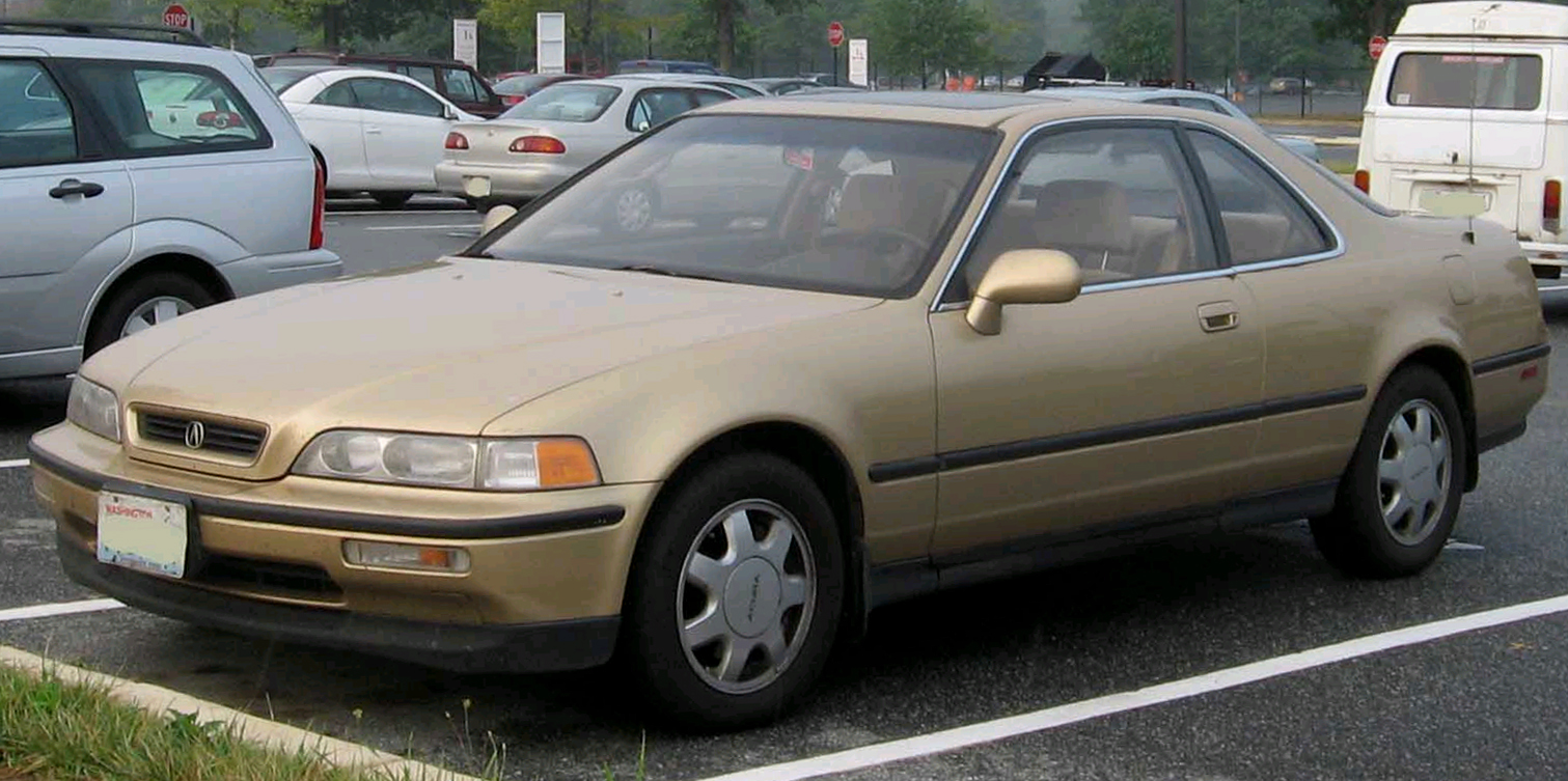 1991-1995 Acura Legend photographed in USA.